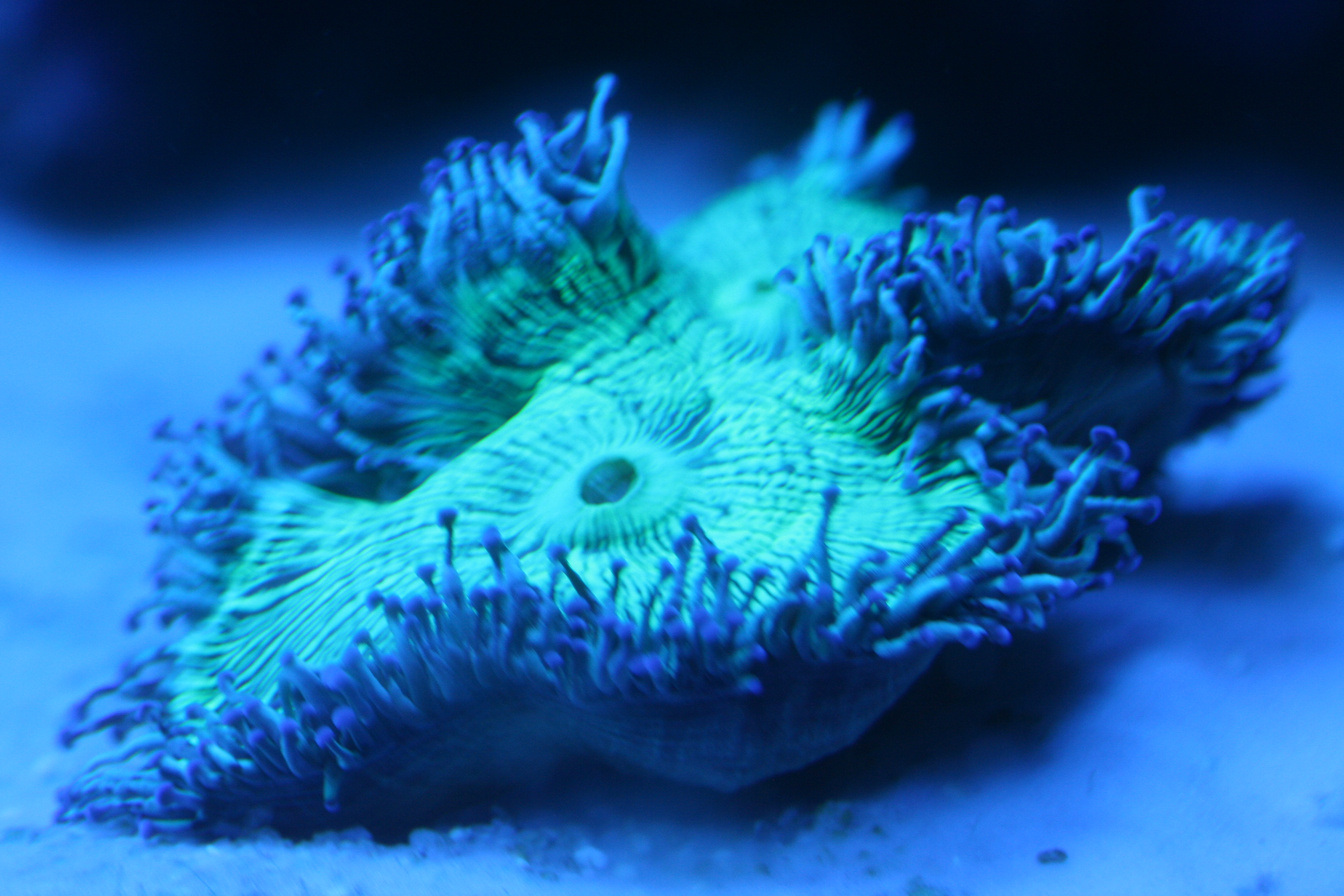 Mouth of Catalaphyllia jardinei (individual damaged in SW dip, thus mouth clearly open)